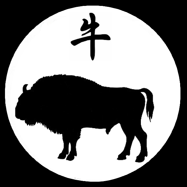 Signe astrologique chinois du Buffle